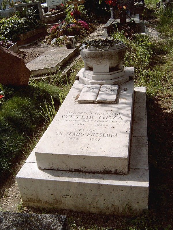 Grave of the Hungarian writer Géza Ottlik, of his wife and his parents in the Farkasrét cemetery in Budapest.